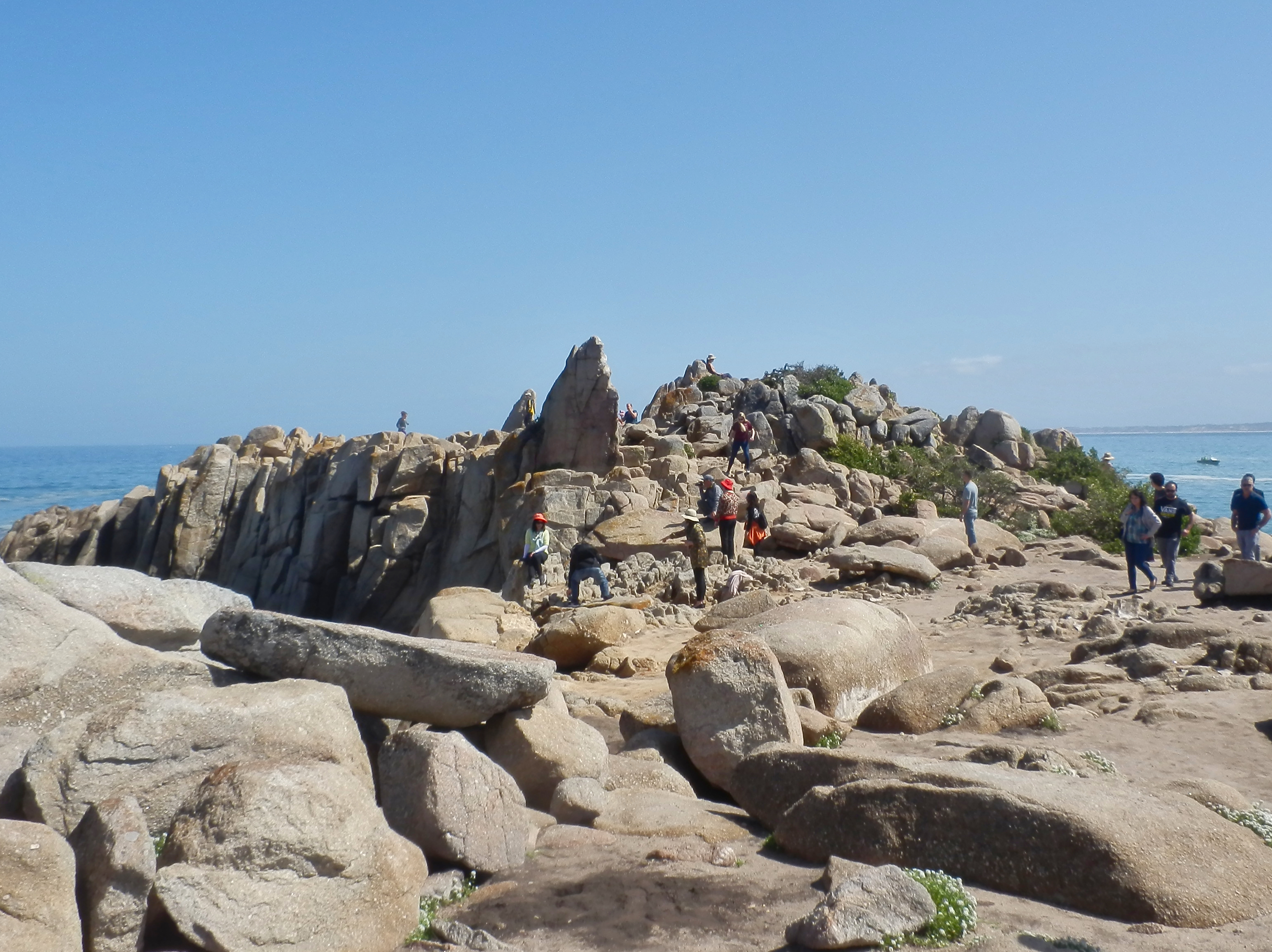 Pacific Grove